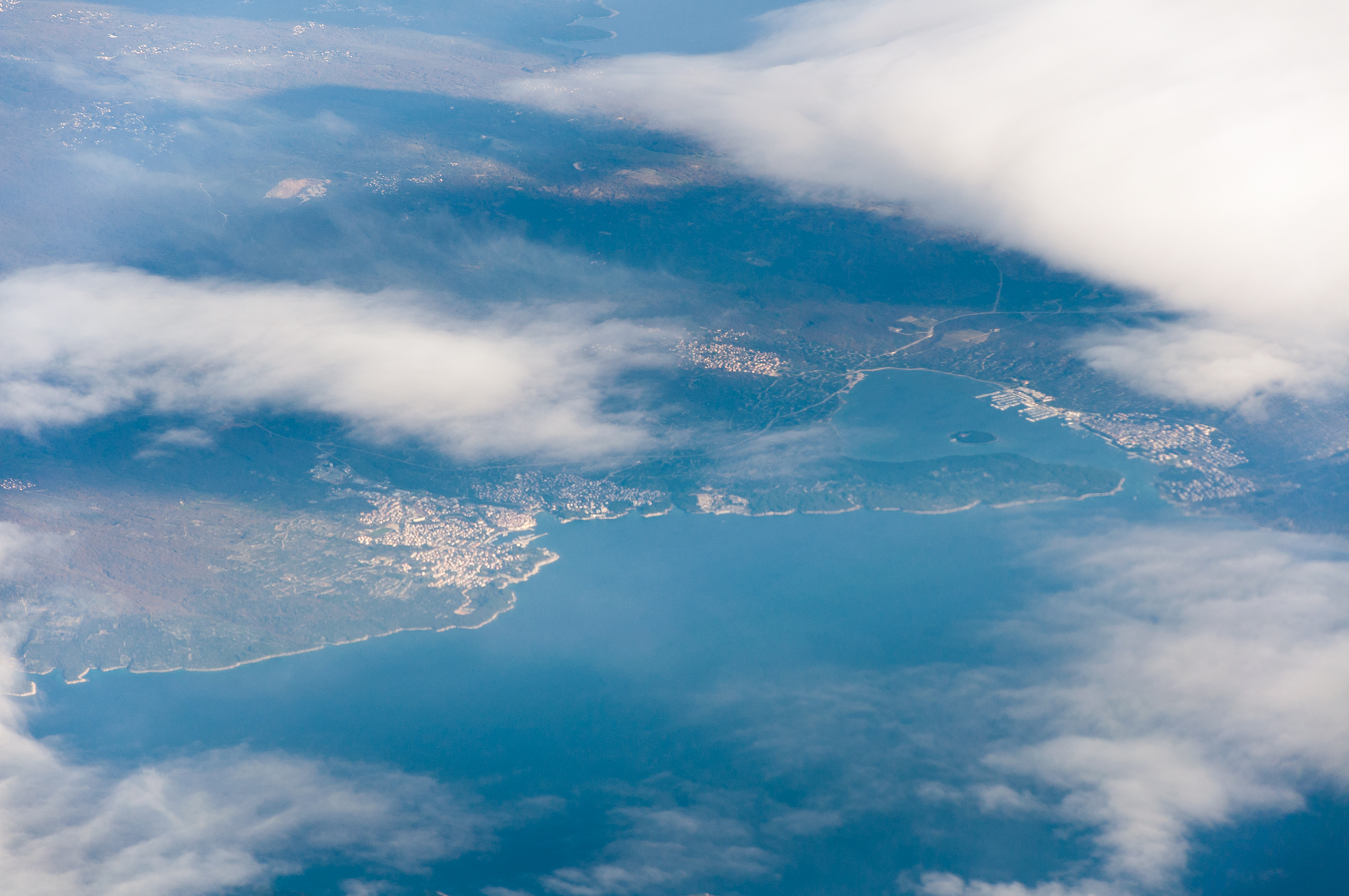 Croatia, aerial views along the coast of Croatia